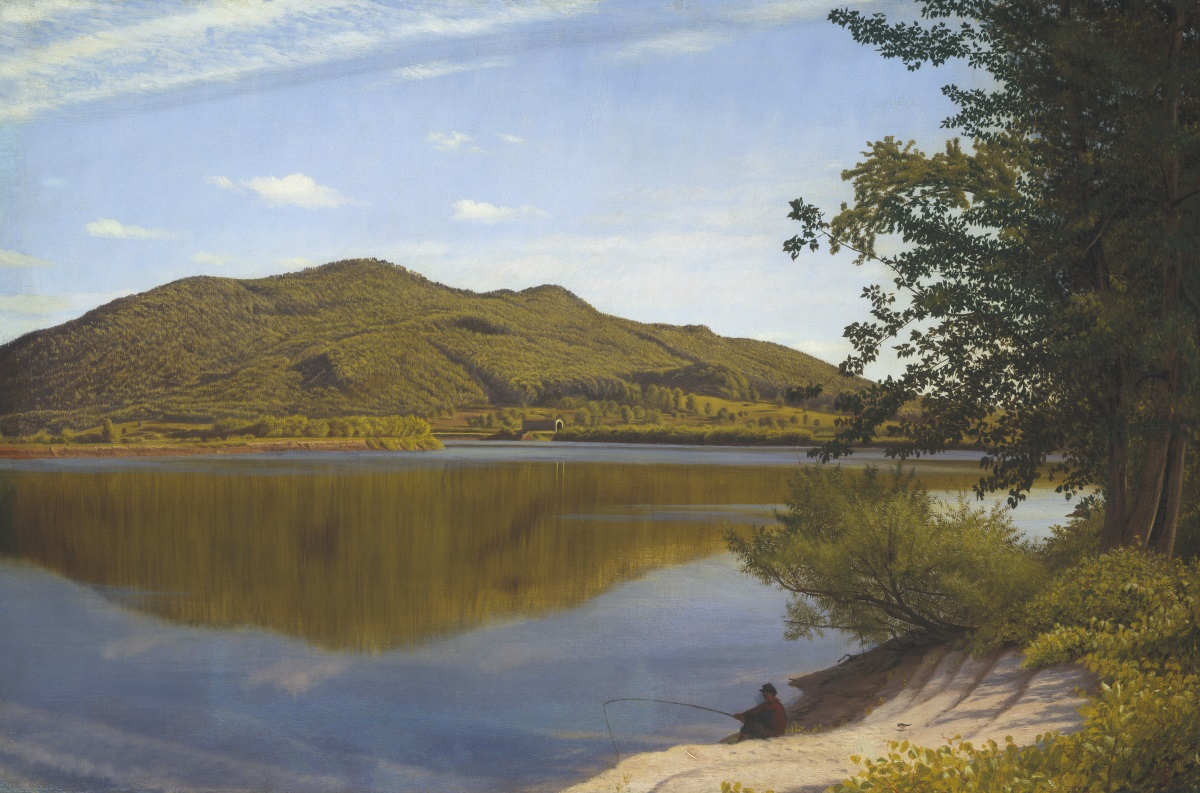 Mount Tom